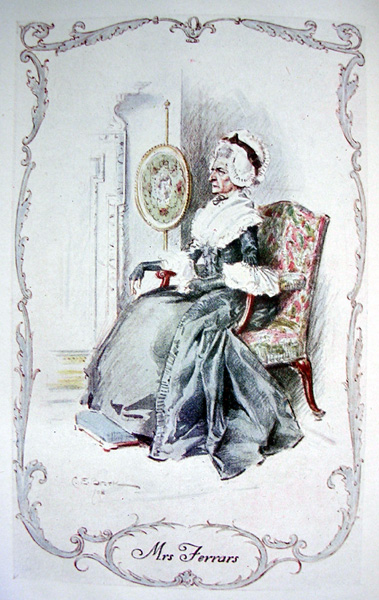 Ch 34 of Sense and Sensibility, (Jane Austen Novel) Mrs Ferrars